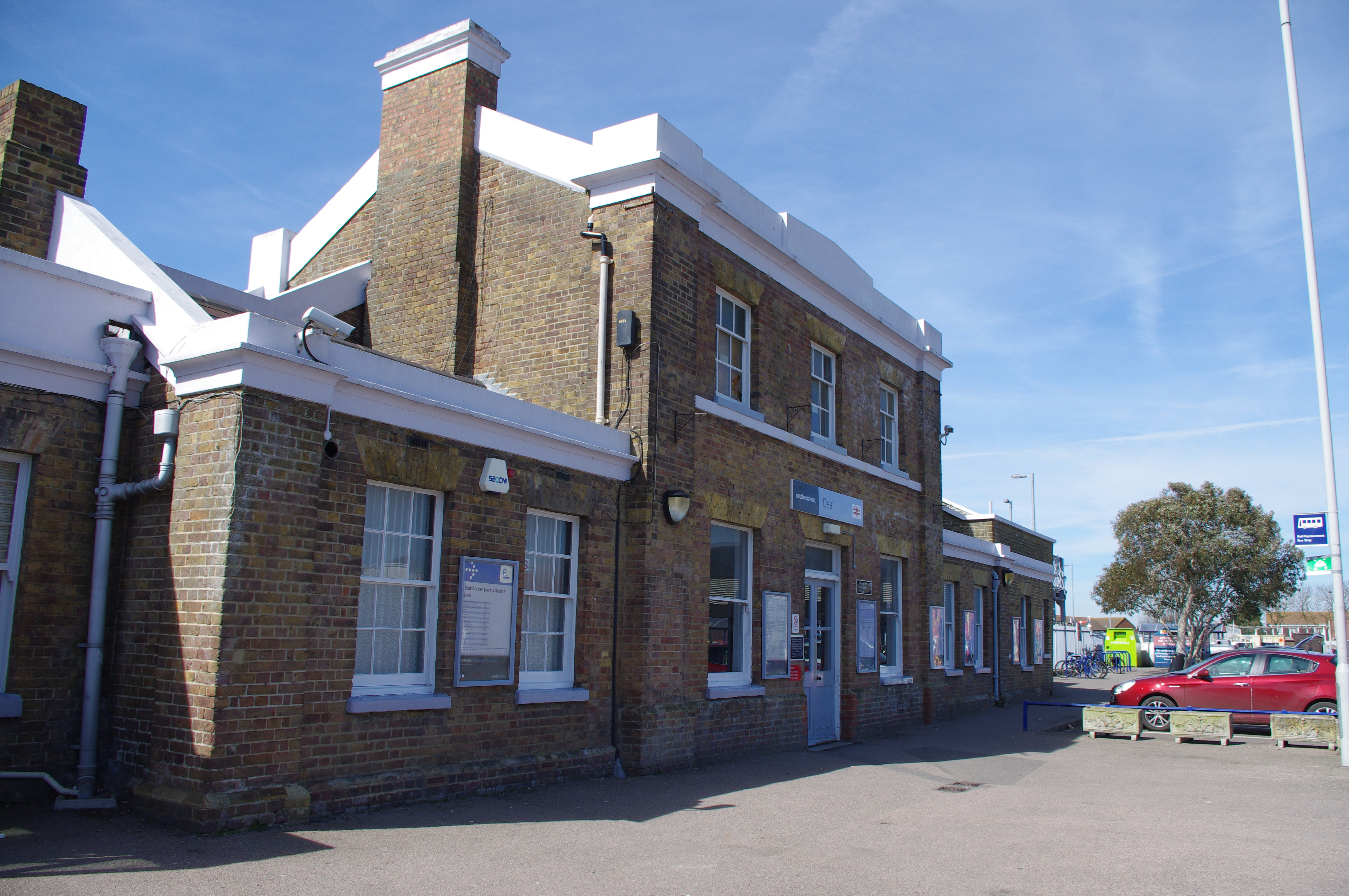 Deal Station